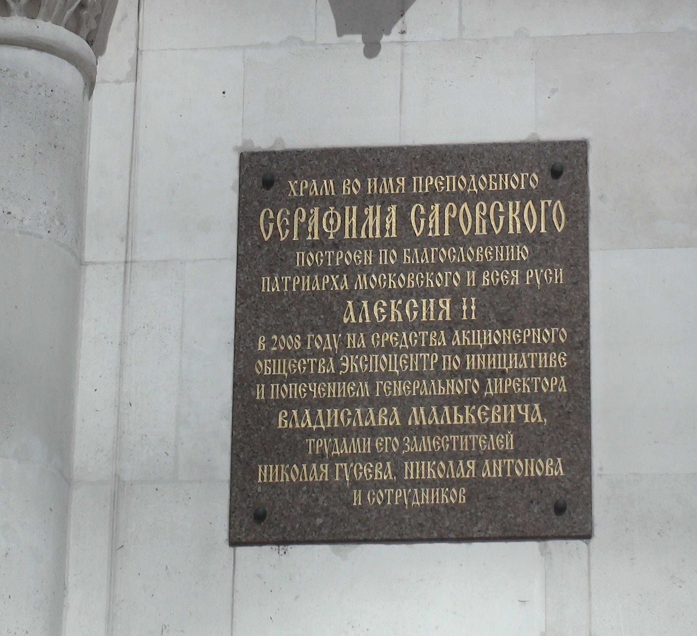 Храм Серафима Саровского на Красной Пресне Москва